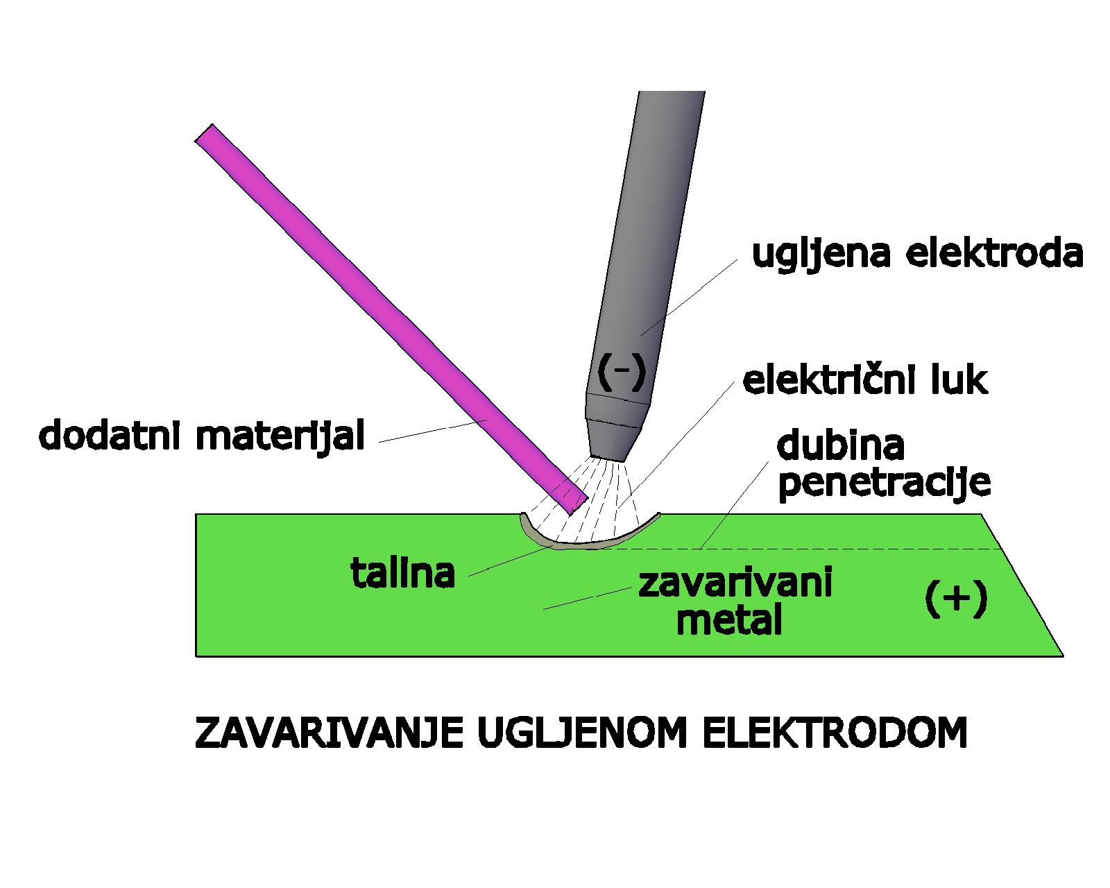 Welding with carbon electrode